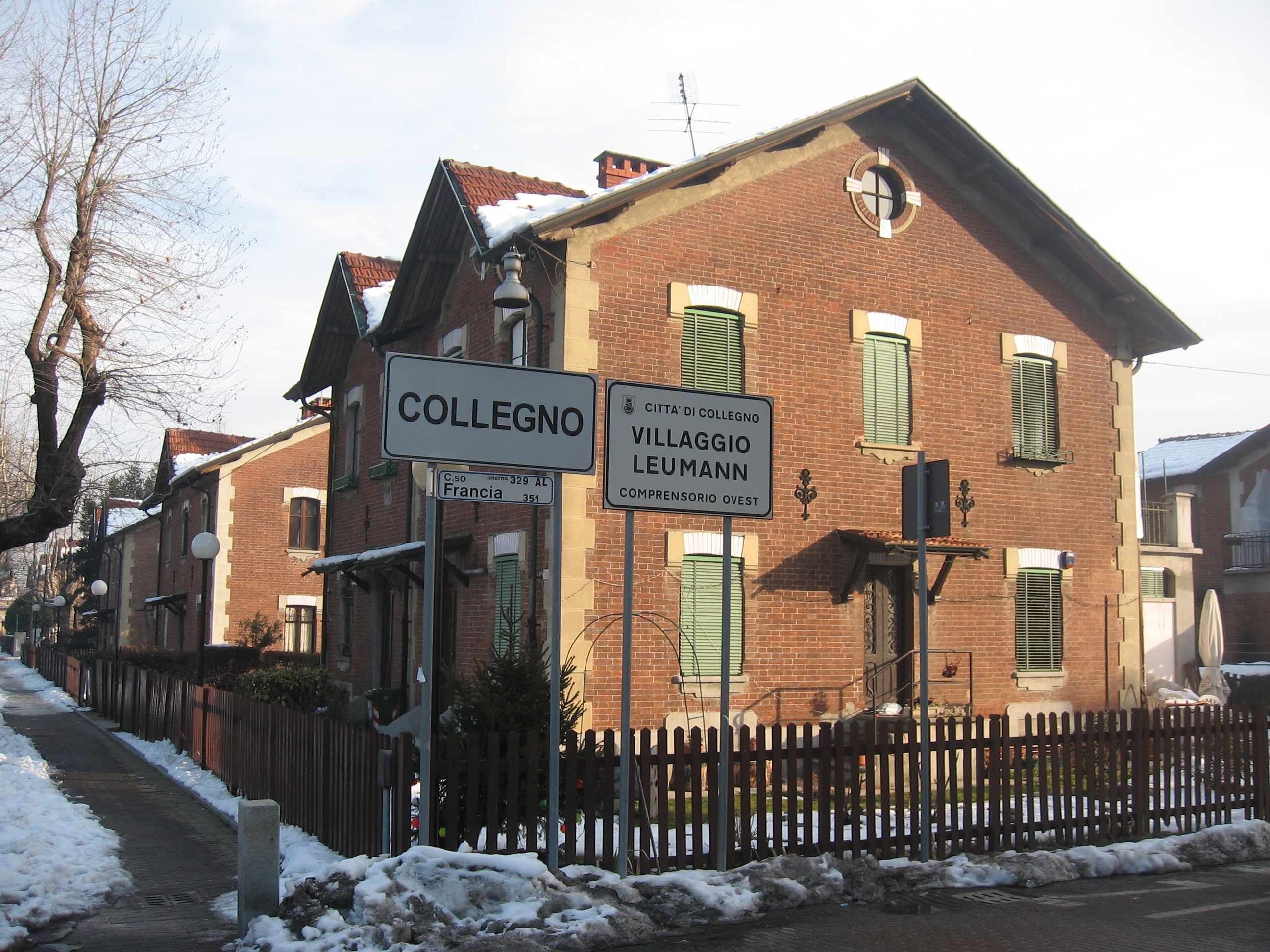 Villaggio Leumann (Collegno, TO, Italy)